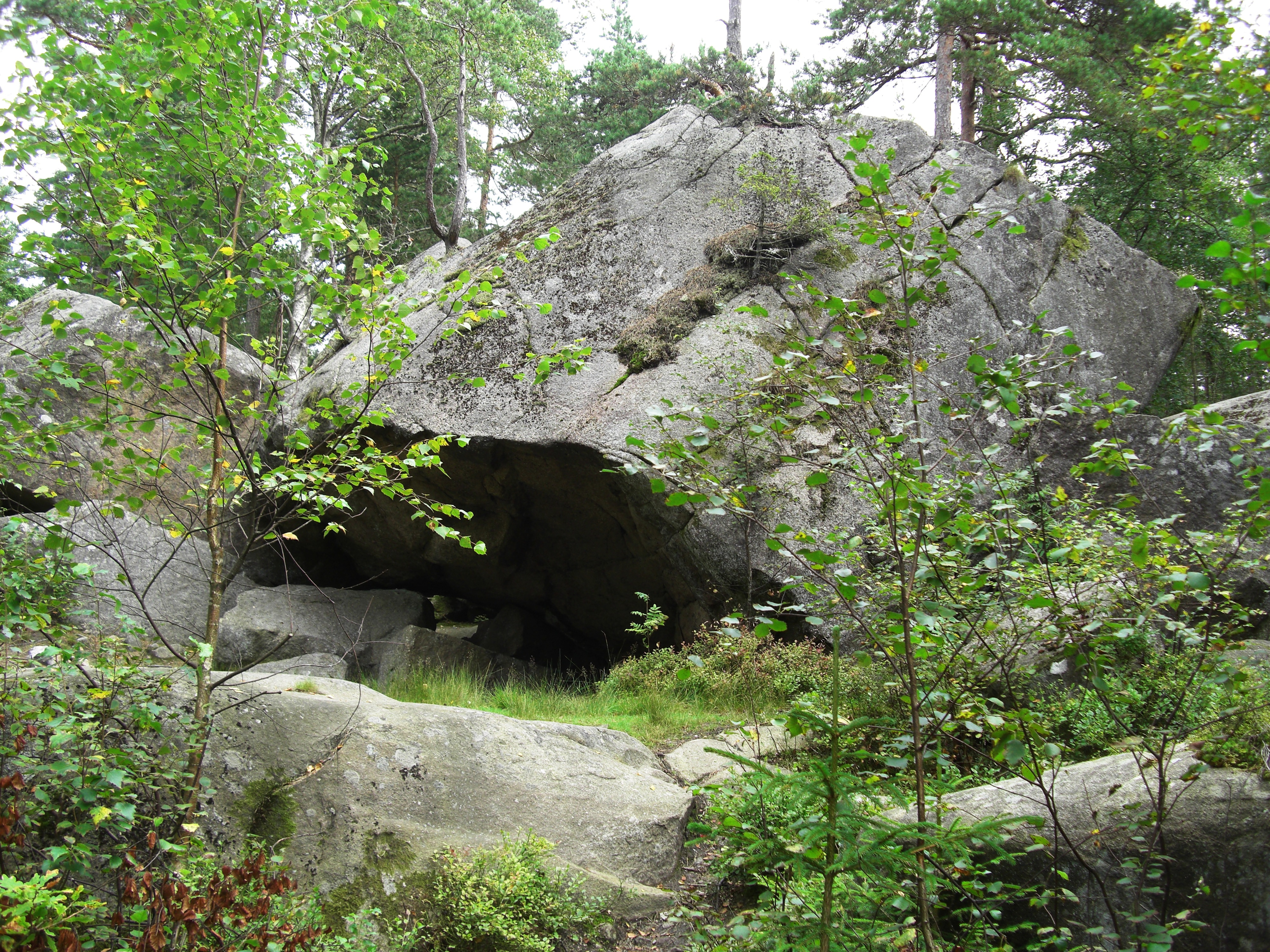 Stone age rock shelter "Stenhytta", Kråkerøy